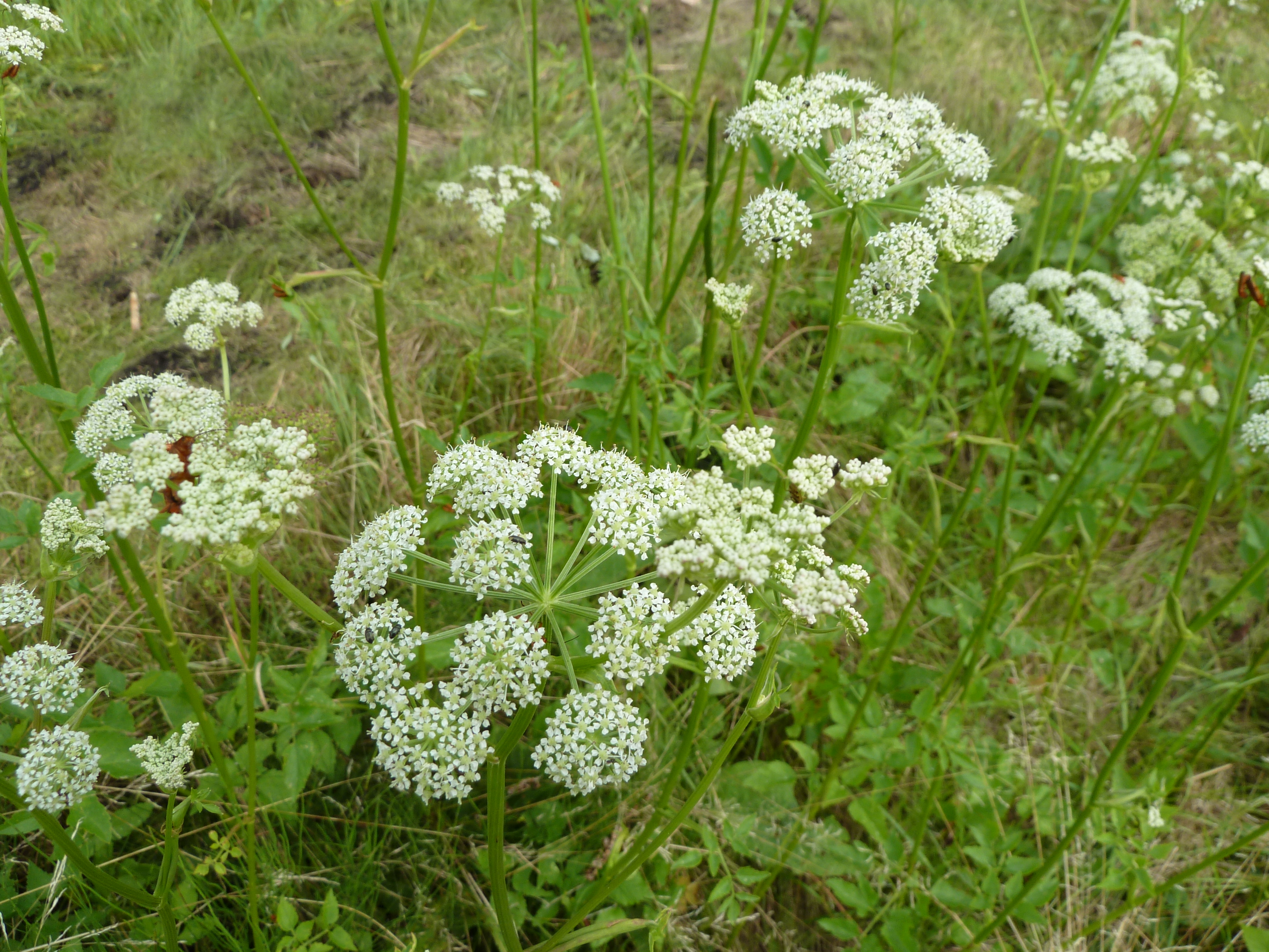 endangered plant Angelica palustris in National natural monument Hrdibořické rybníky (central Moravia, Czech Republic) - the only locality in the Czech Republic